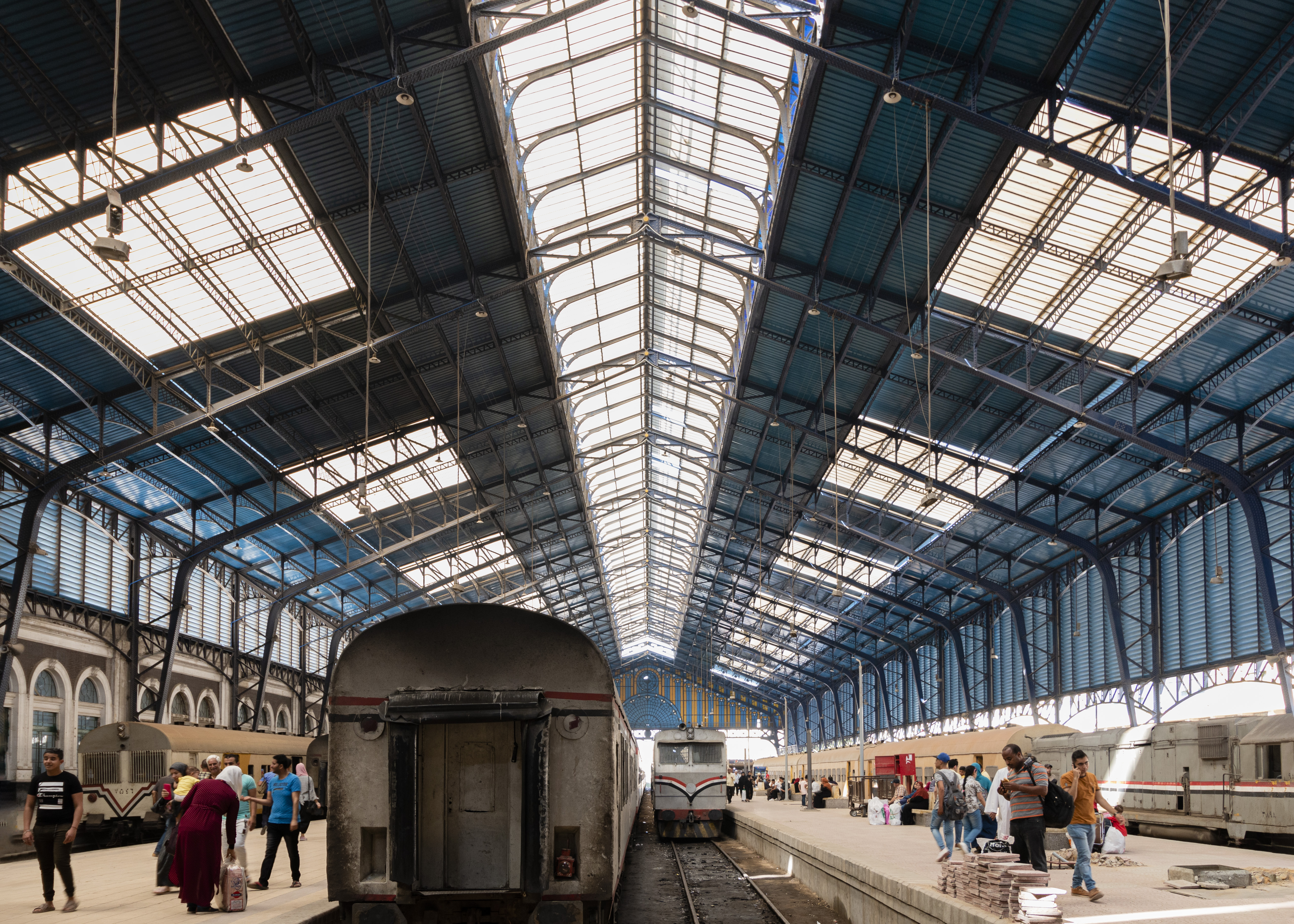 This is an image with the theme "Africa on the Move or Transport" from: Egypt